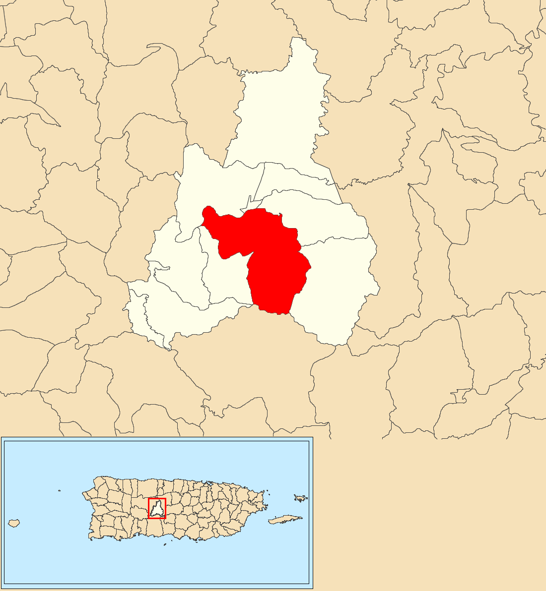 Veguitas, Jayuya, Puerto Rico locator map